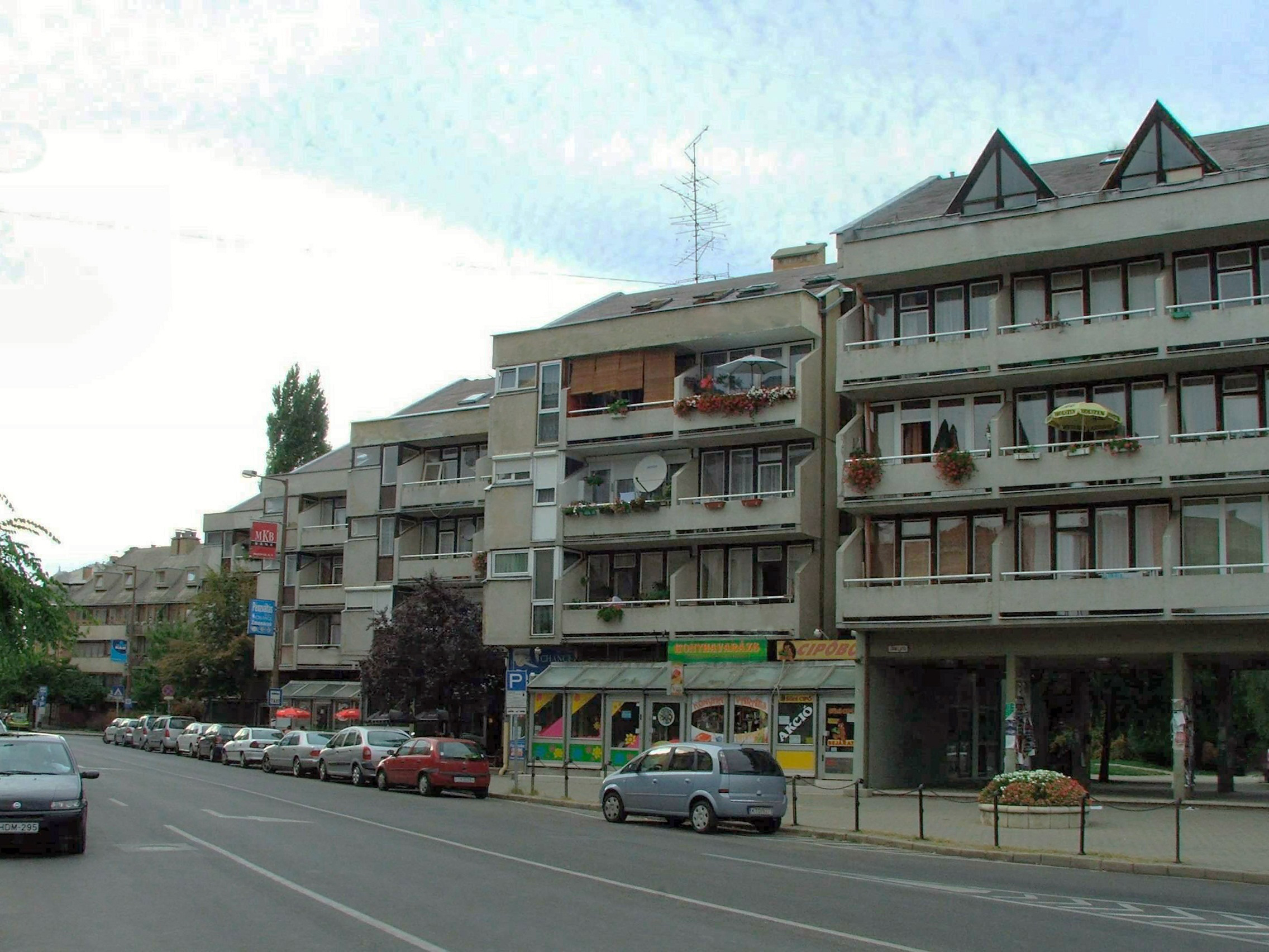 Lőrinc (sometimes spelled Lőrincz) street in Esztergom, Hungary